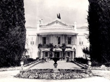 Paterson Mansion in Bornova, İzmir, Turkey, in a 19th century photograph showing the state of the residence when in use.